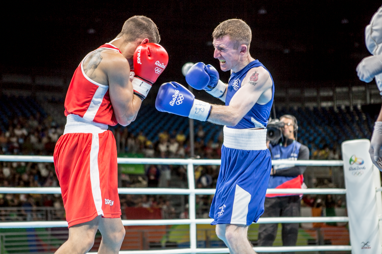 Day 3 Boxing 49 kg. Round of 16, Samuel Carmona (Spain) vs Paddy Barnes (Ireland)